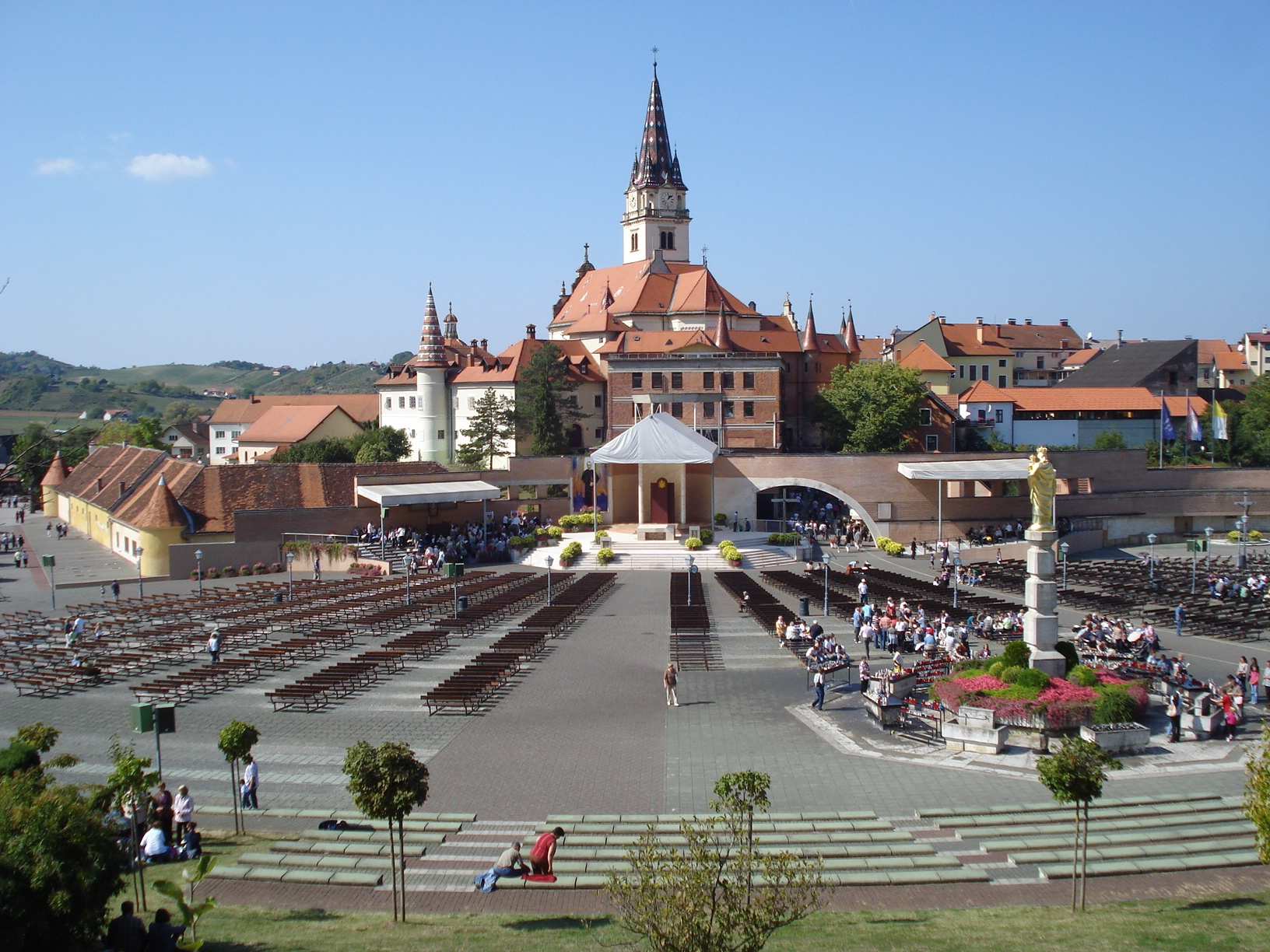 Marija Bistrica - Open-air Church of the Blessed Aloysius Stepinac facility (Croatia)